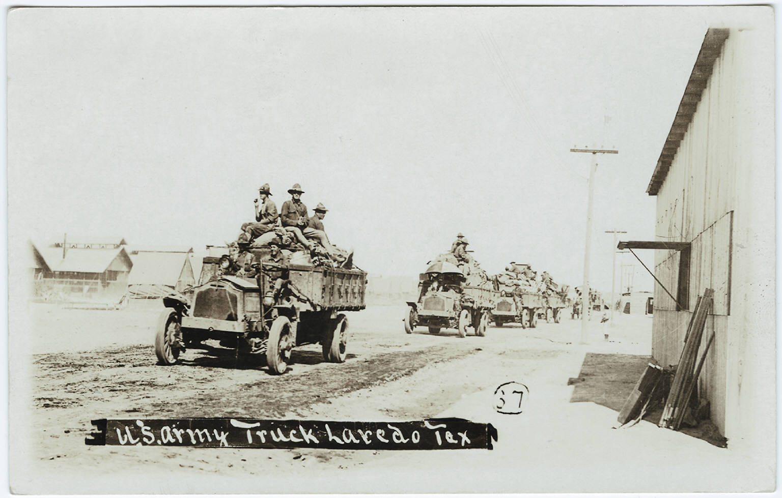 Postcard or print of a photo taken during the Mexican Revolution.